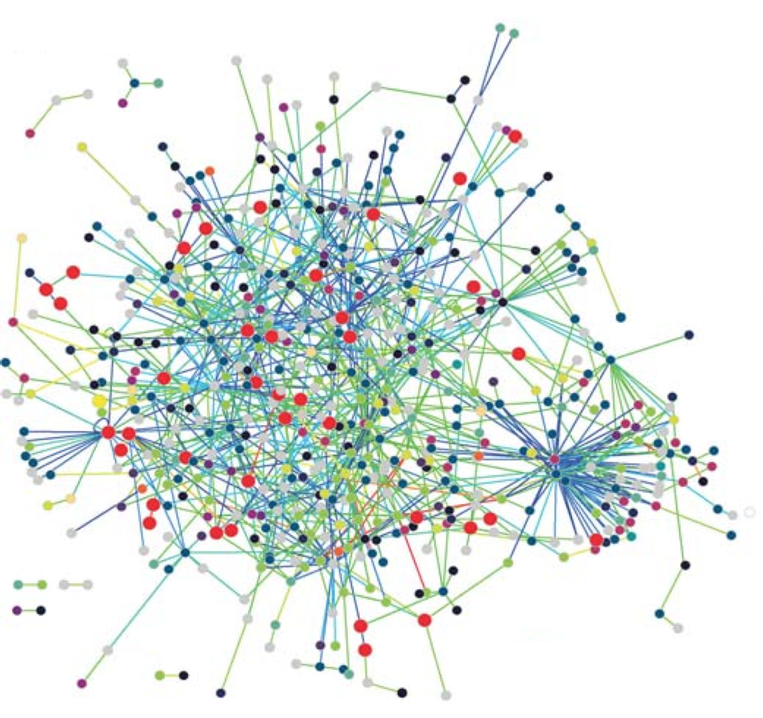 The protein interaction network of T. pallidum including 576 proteins and 991 interactions. Nodes are color-coded according to TIGR main roles. Proteins involved in DNA metabolism are shown as enlarged red circles.